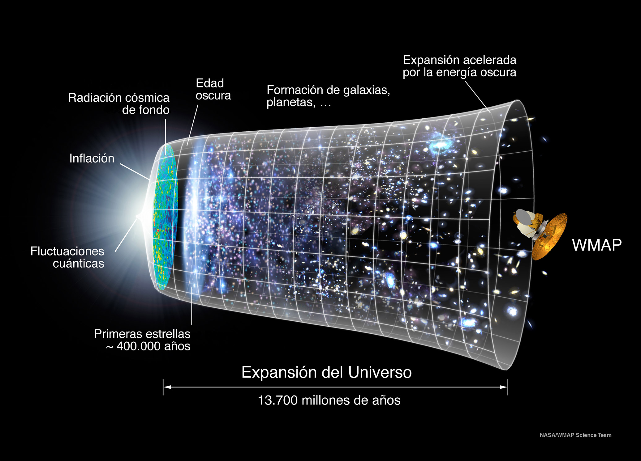 Universe timeline